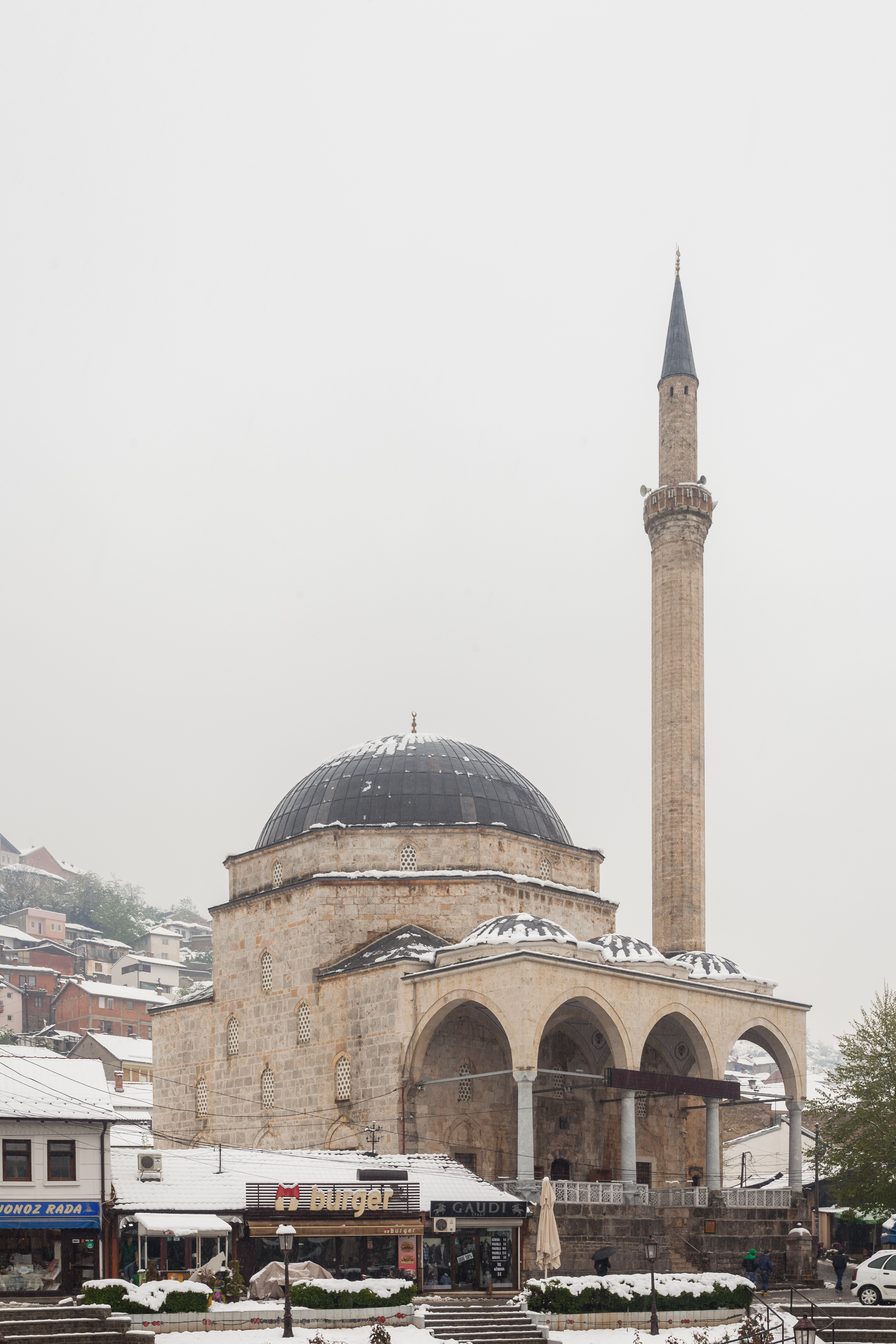 Sinan Pasha mosque, Prizren, Kosovo